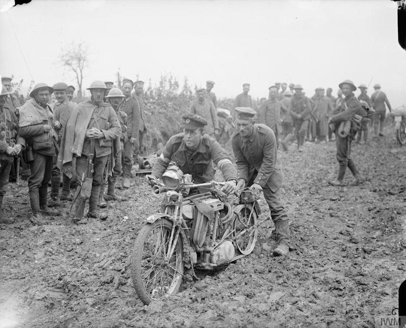 The Battle of the Somme, July-november 1916 Battle of Bazentin Ridge. German prisoner helping a despatch rider to push his motor bike through the mud: Mametz Wood, 17th July 1916.